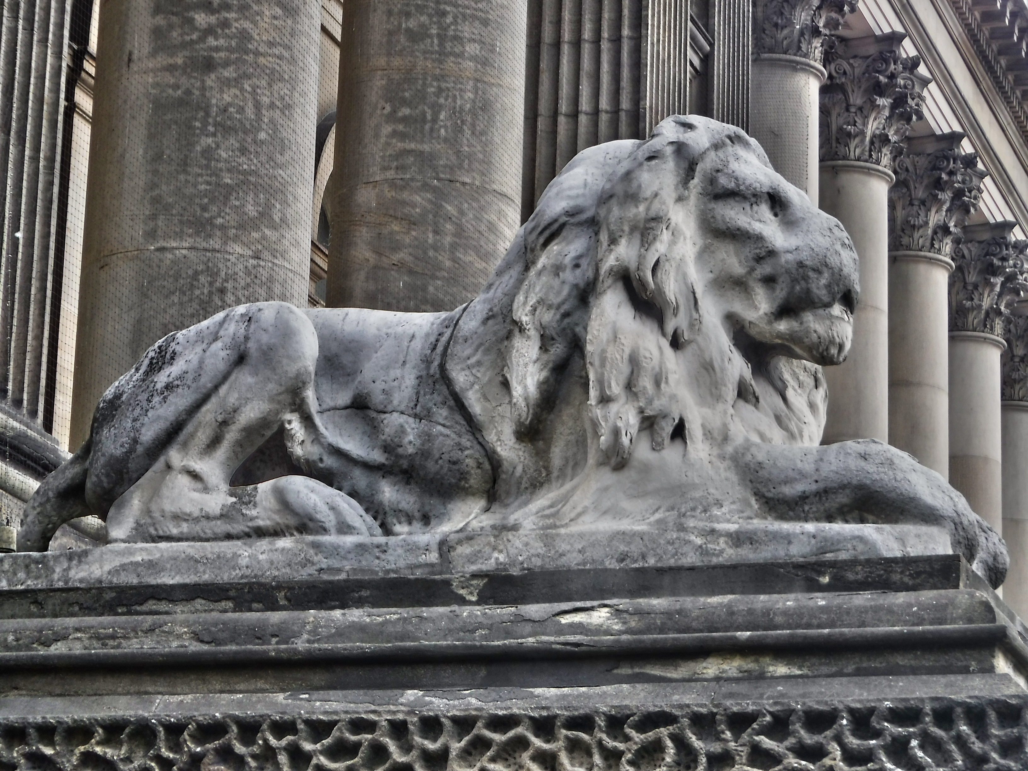 Leeds Town Hall, UK, 27082016 JCW1967 OPE (8)